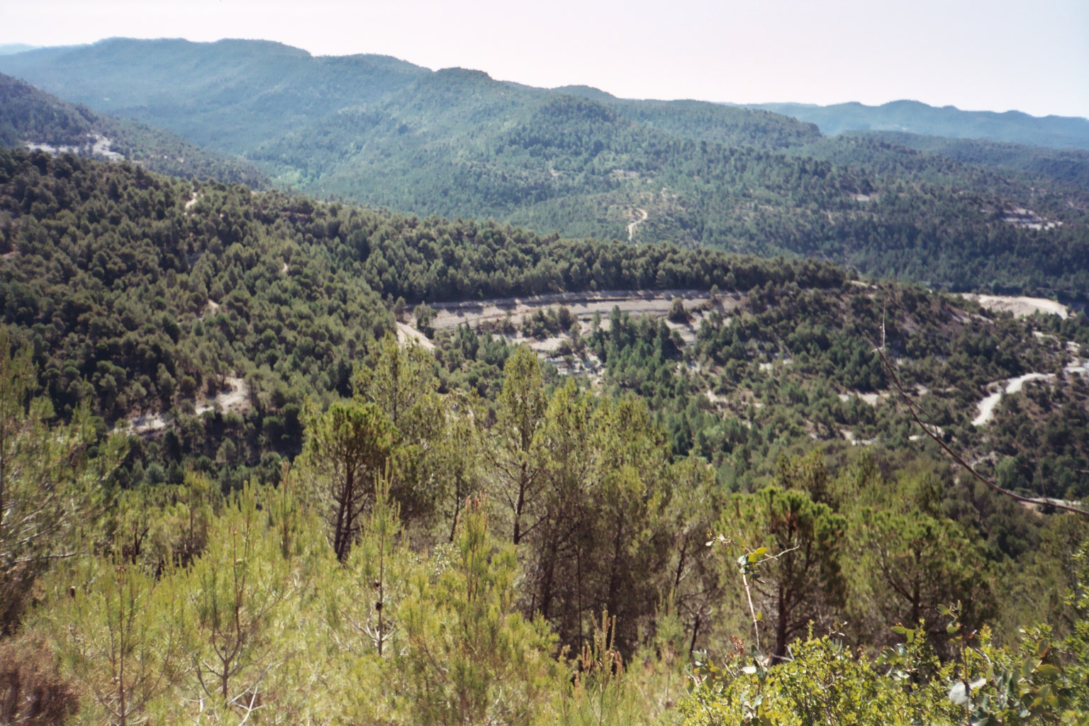 La Carena del Peter (Monistrol de Calders, Moianès)